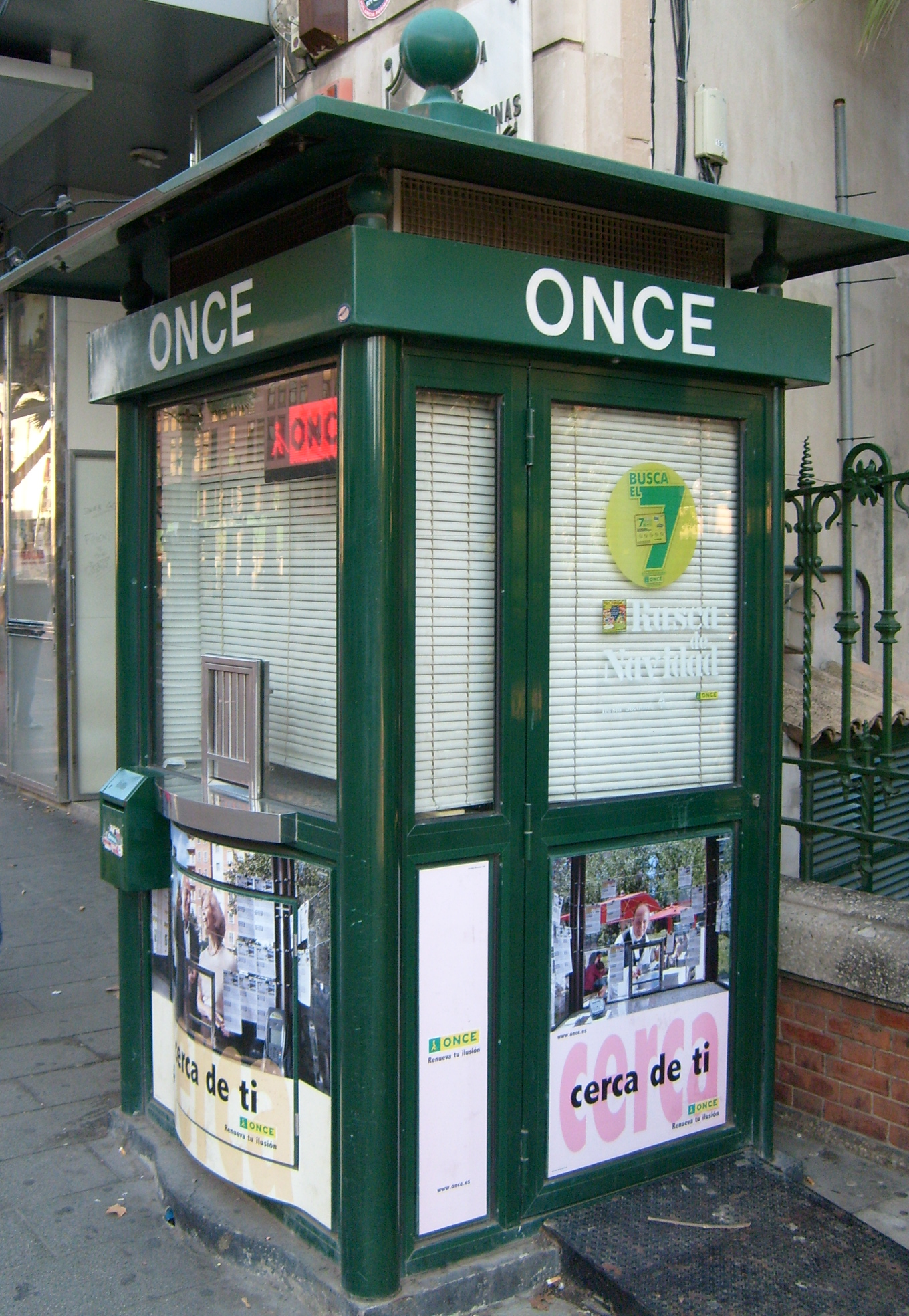 ONCE lottery coupon selling point in Palma